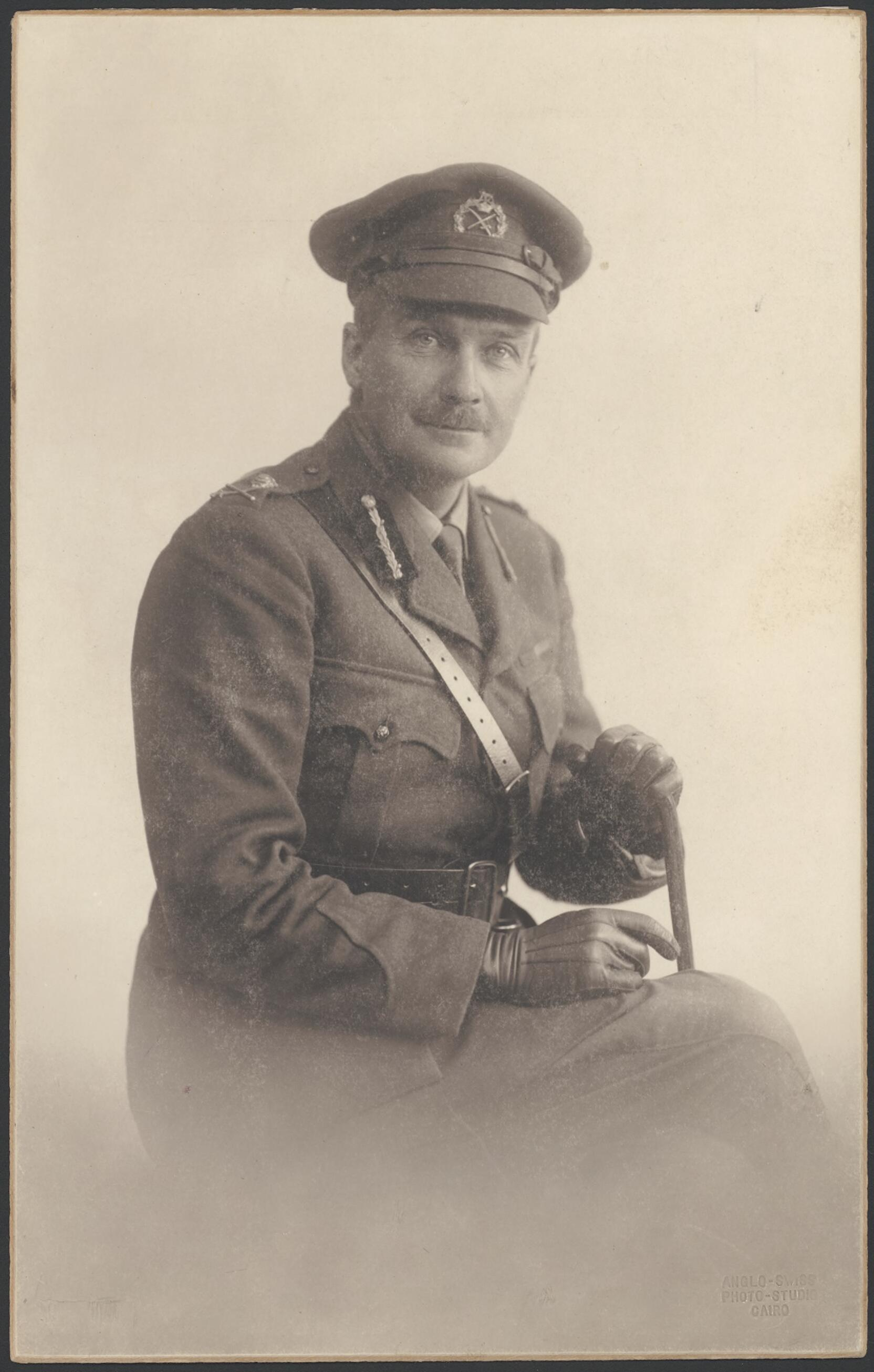 Australian military officer Neville Howse in his uniform